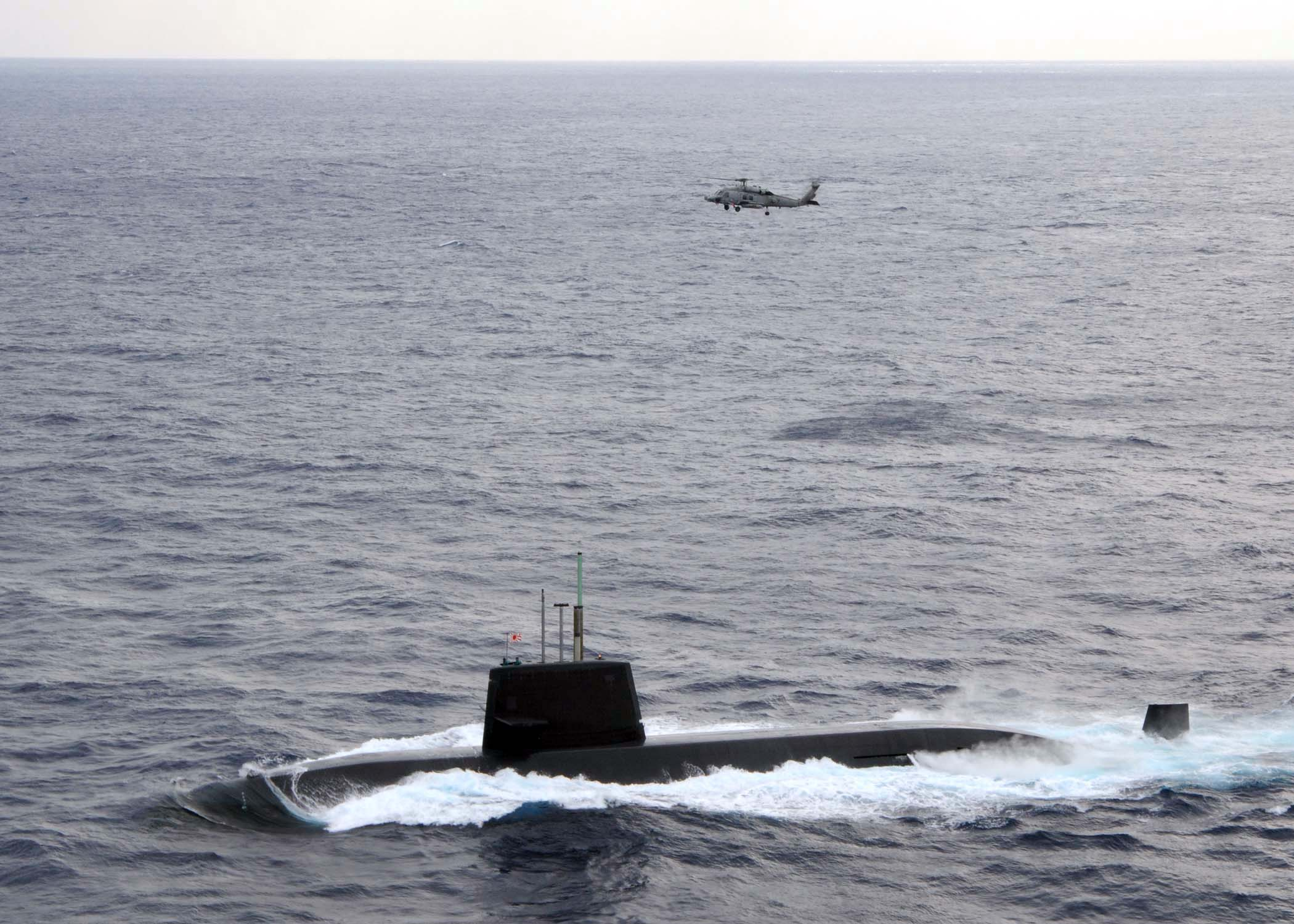 081119-N-9565D-133 PACIFIC OCEAN (Nov. 19, 2008) Japan Maritime Self-Defense Force Oyashio class submarine JS Mochishio (SS-600) transits in the Pacific Ocean at the culmination of ANNUALEX 2008. ANNUALEX is a bilateral exercise between the U.S. and the Japan Maritime Self-Defense Force.